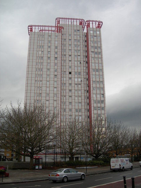 Parsons House This block of flats is on the west side of Edgware Road. Click the link for more photos and details.